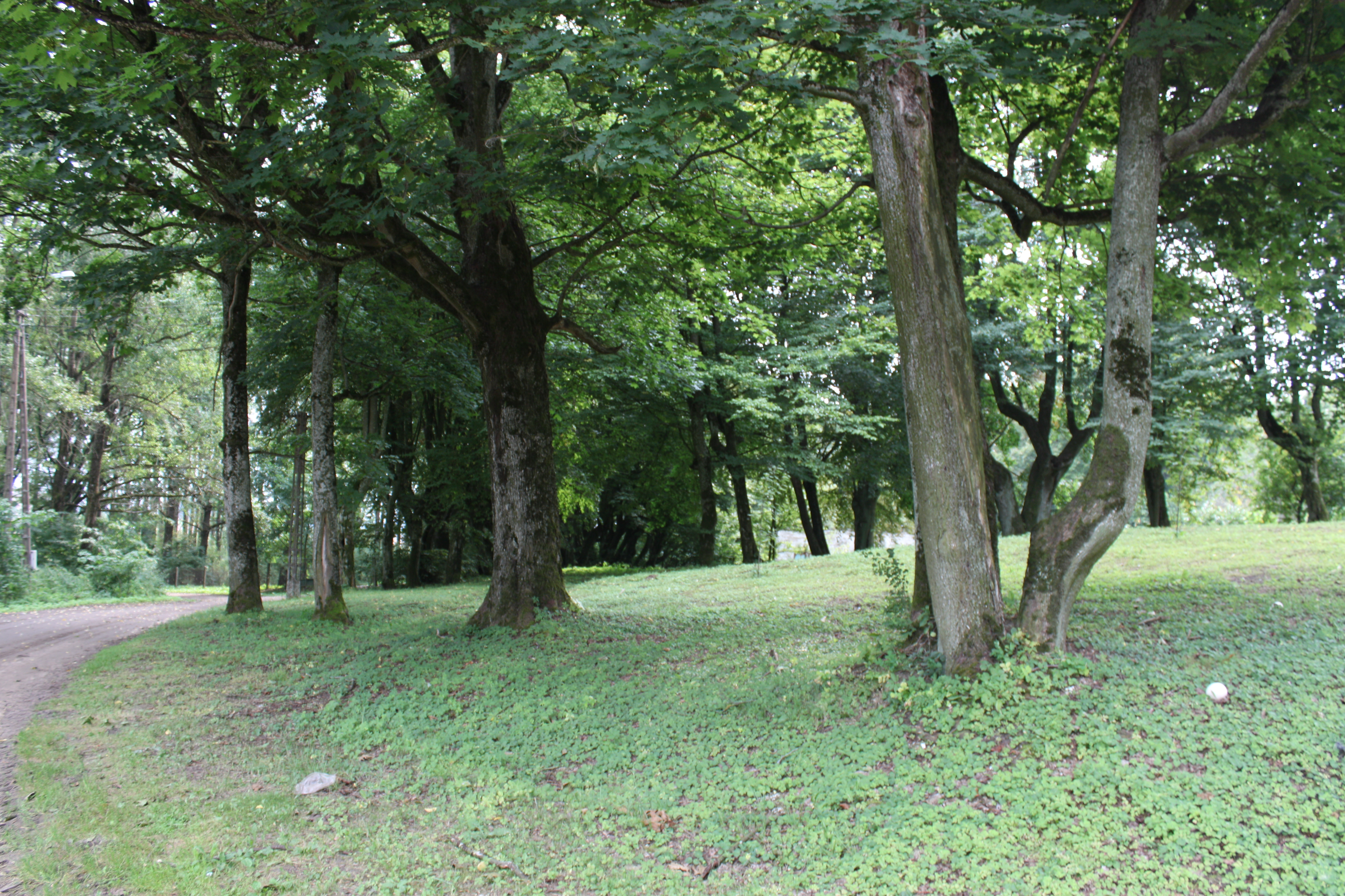 Manor in Rogale.